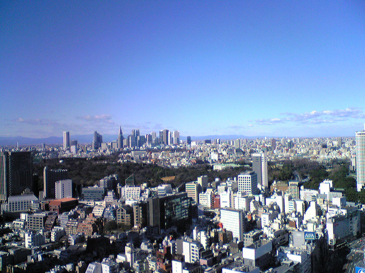 tokyo